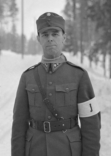 Colonel Karl Yrjö Ilmari Takkula.